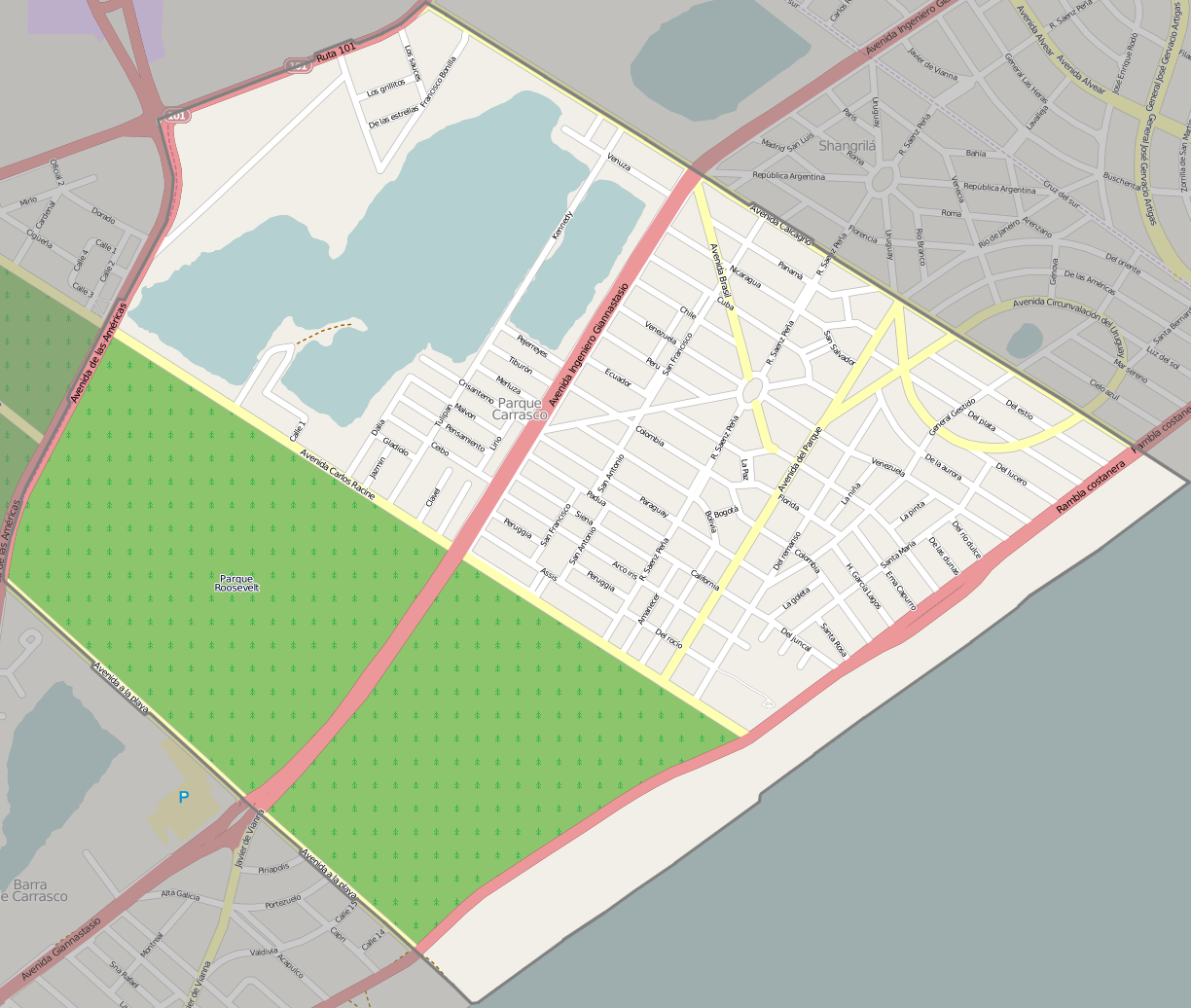 Street map of Parque Carrasco, resort of the Ciudad de la Costa, Canelones Department, Uruguay, exported from OpenStreetMap. I added shading to delimit the resort. This map may be incomplete, and may contain errors. Don't rely solely on it for navigation.